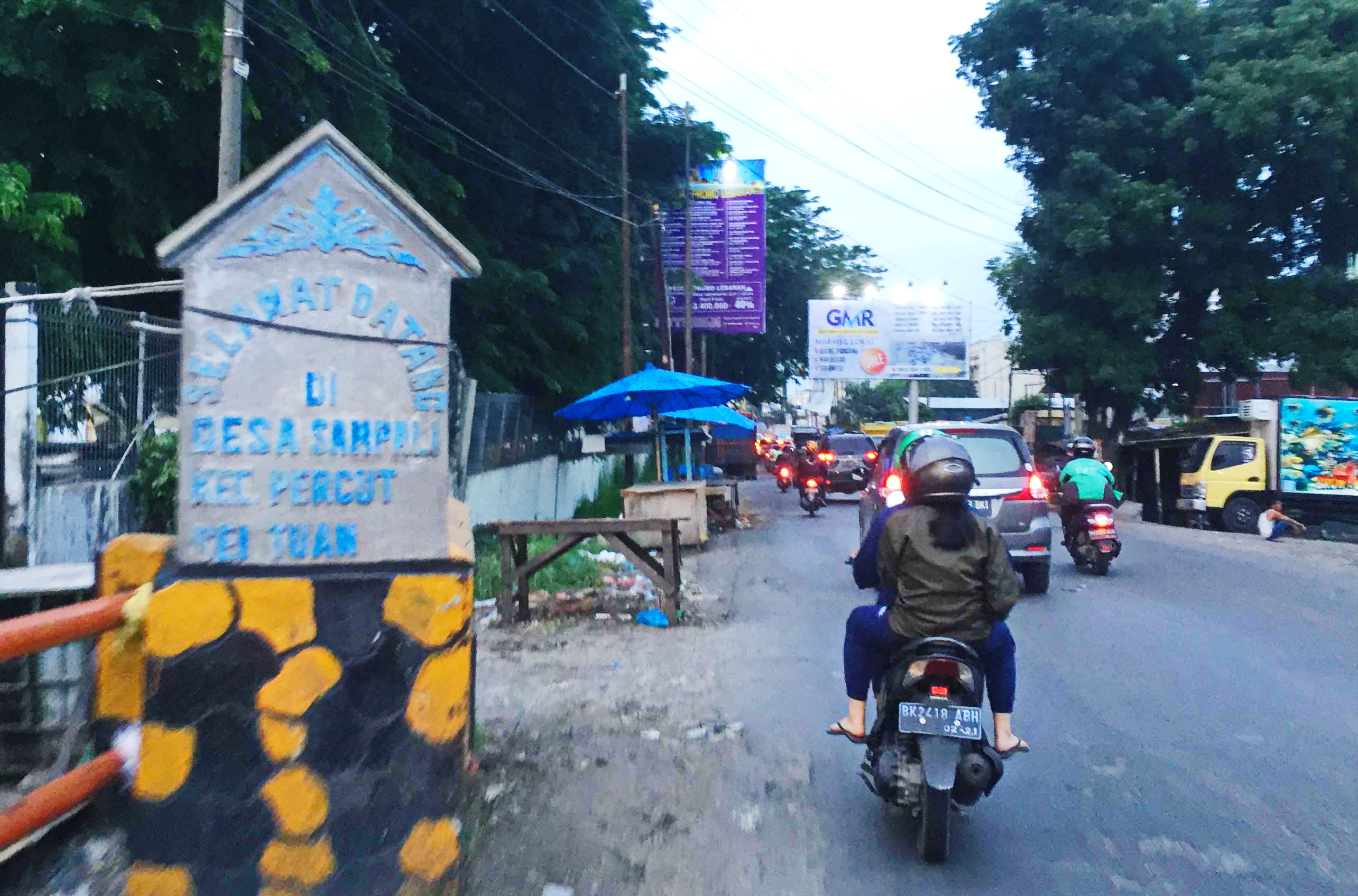 Welcome gate to Sampali, Percut Sei Tuan, Deli Serdang